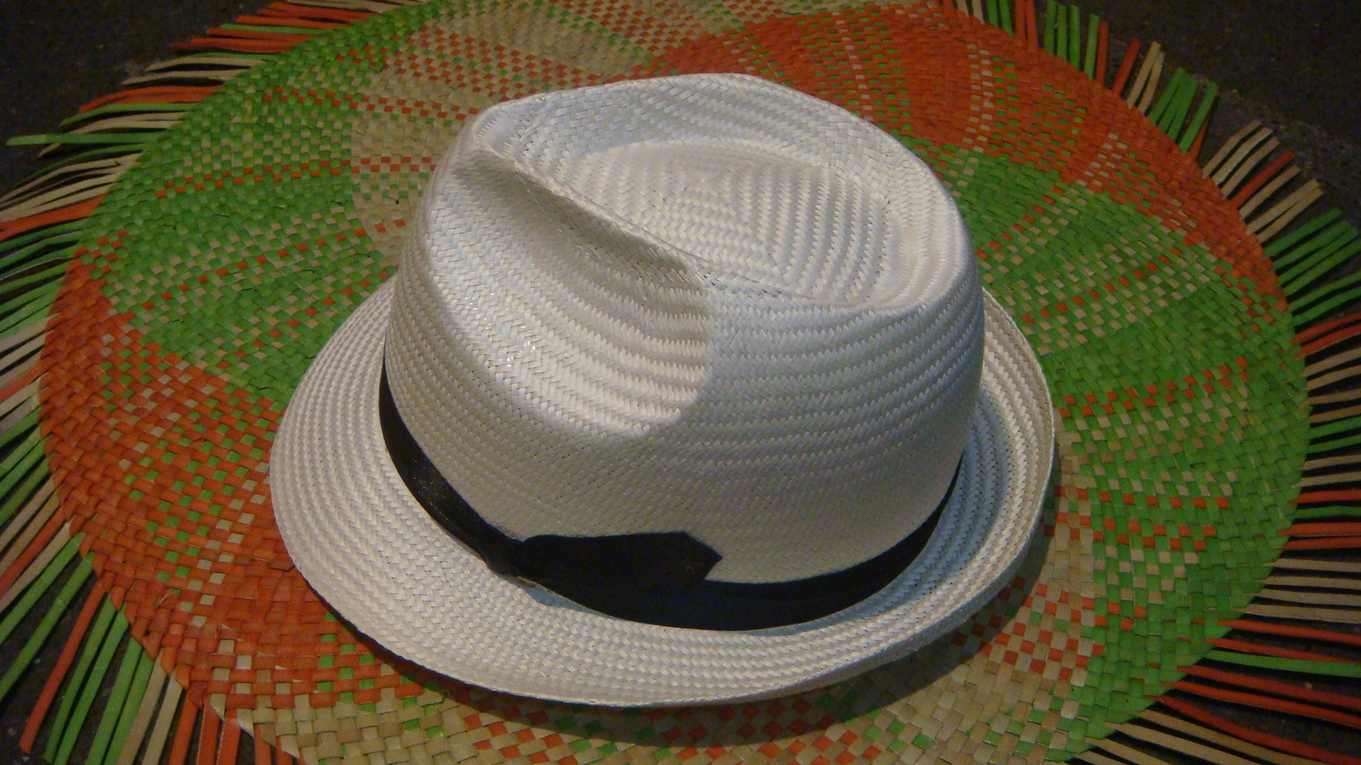 Buntal hat (weaving started in 1907 and 1909 at Baliuag, Bulacan), made of the finest buntal fiber (extracted from Polyandrococos, buri palm tree).[1]